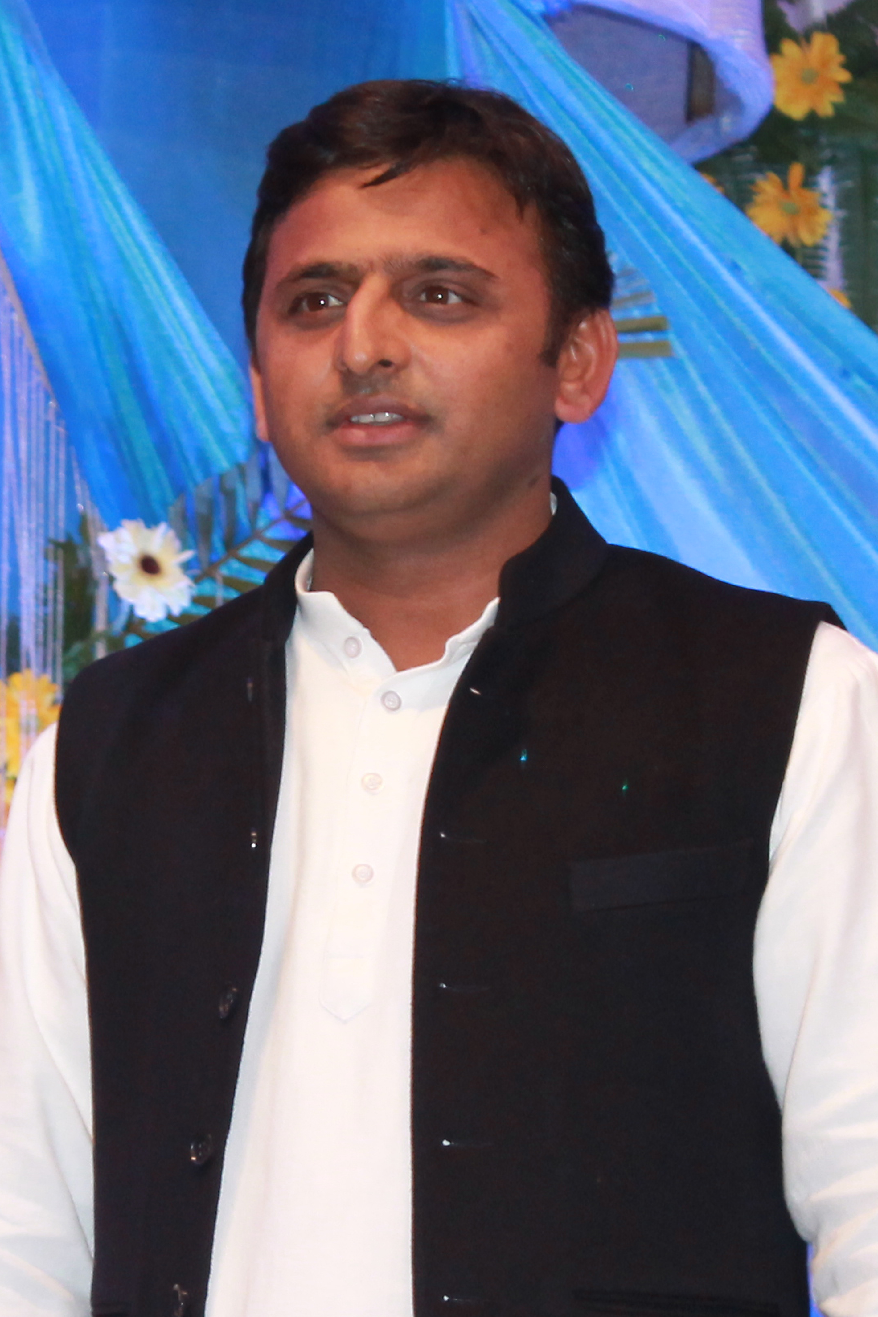 Image Courtesy: Prateek Dubey, Licensed under the Creative Commons Attribution 3.0 Unported | Wikimedia Commons